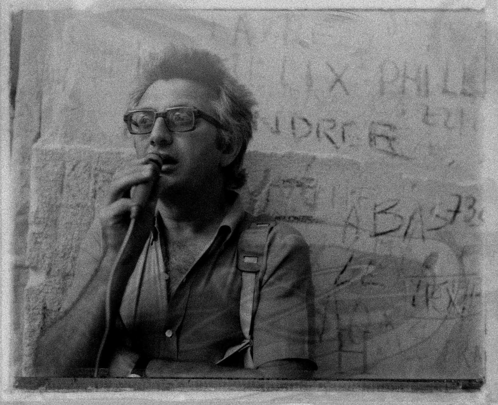 French photographer Lucien Clergue, in Southern France, in 1975. The pic was taken during 6èmes Rencontres Internationales de la Photographie, Arles, 1975, at 'Les Beaux de Provence' caves. Camera and material were sponsored by POLAROID. From the ~8×10_cm negative, a very-very-much "makeshift" upload file was created today (the day of this upload) by "poor means", lacking (but: not at all missing) a darkroom for 2 decades ;) The original is HQ, but I indeed do like this r.e.a.l.l.y dirty version, too. Question: Anything better 'out there', on this person, as of now, which is available for WP?